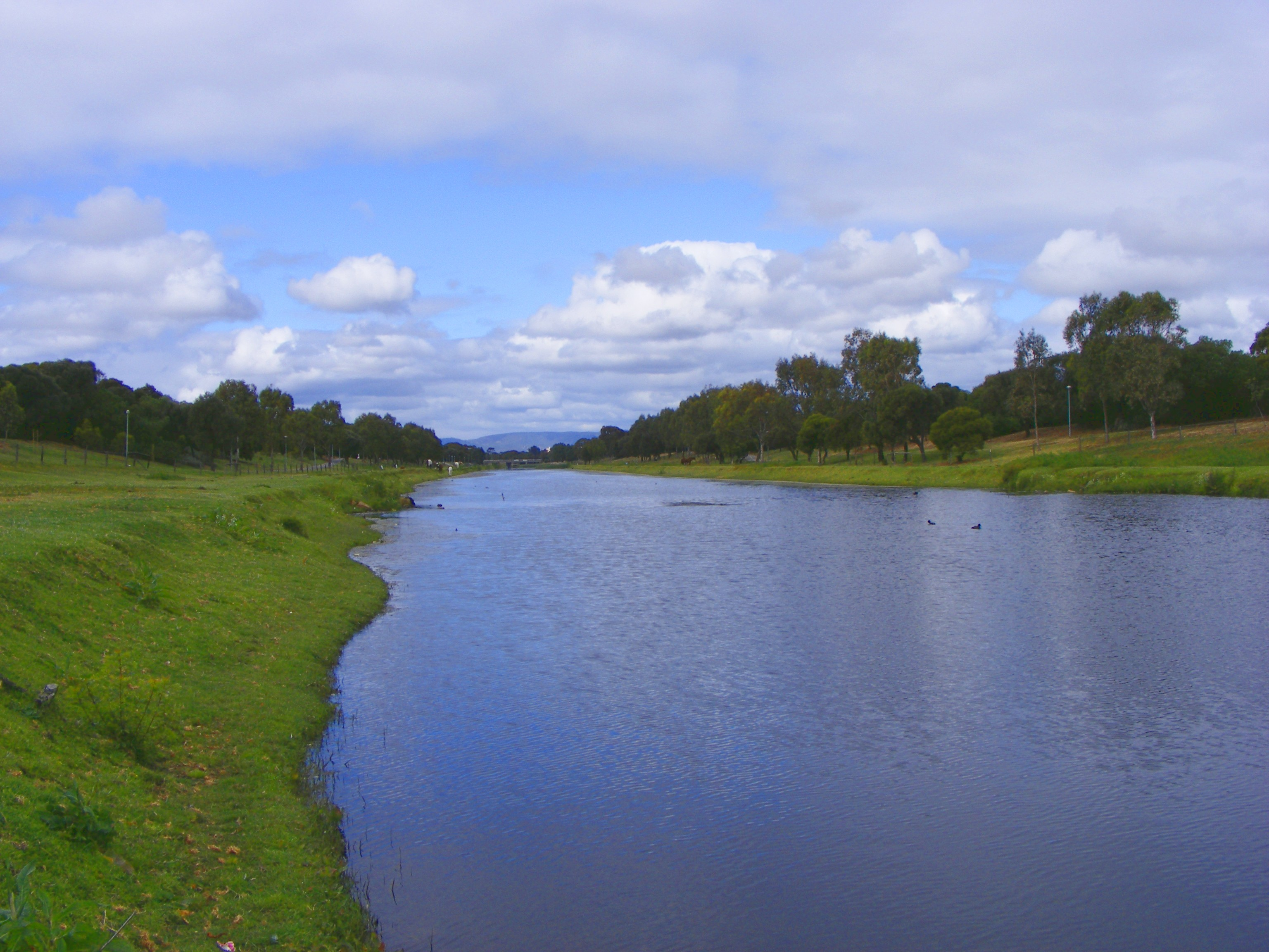 "Breakout creek". The constructed outlet for Adelaide's River Torrens Photo from the bank of the river about 150m from the sea at Henley Beach